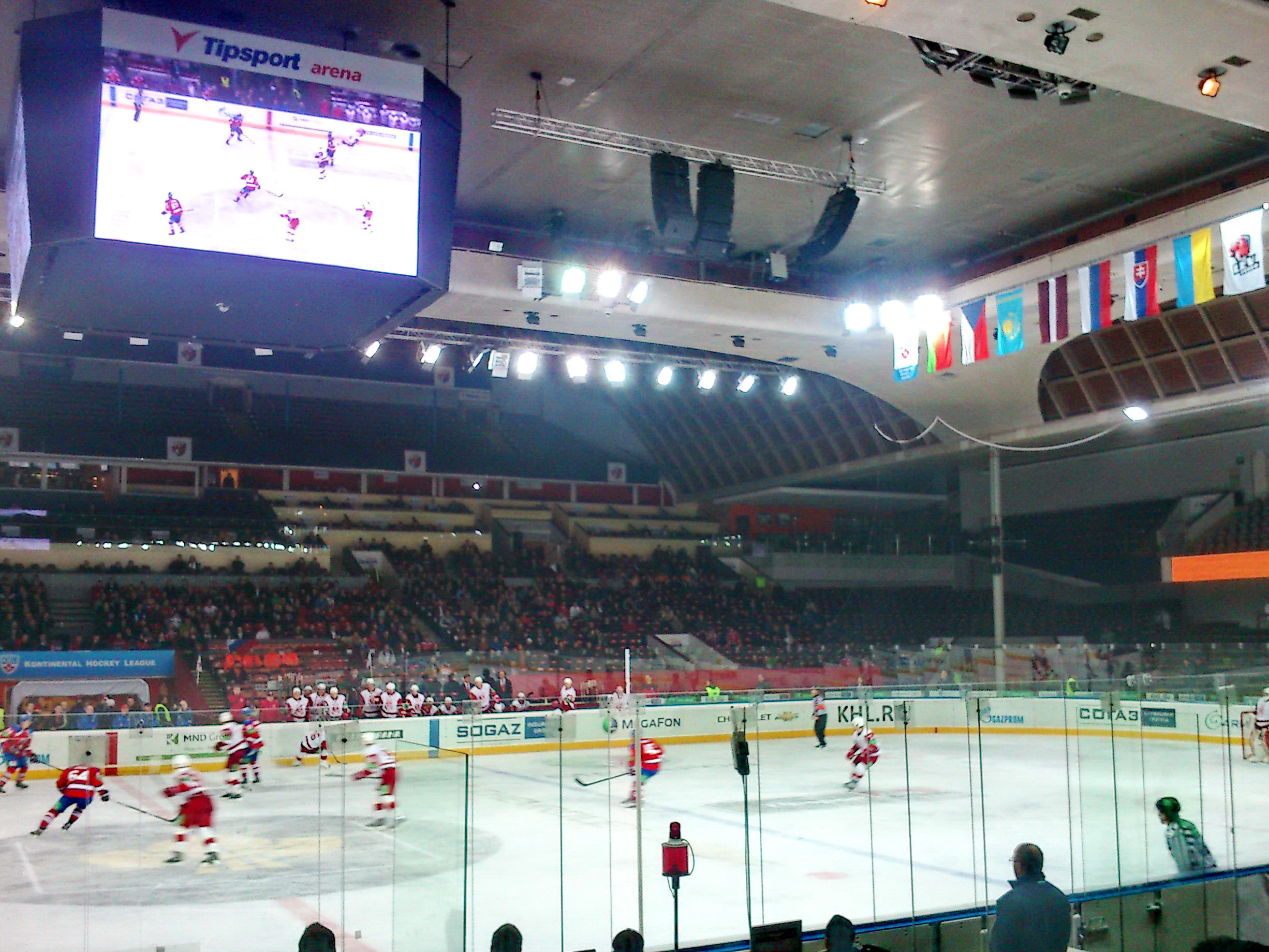 HC Lev Praha vs Vityaz Chekhov in KHL match in Prague, Tipsport Arena (2013).